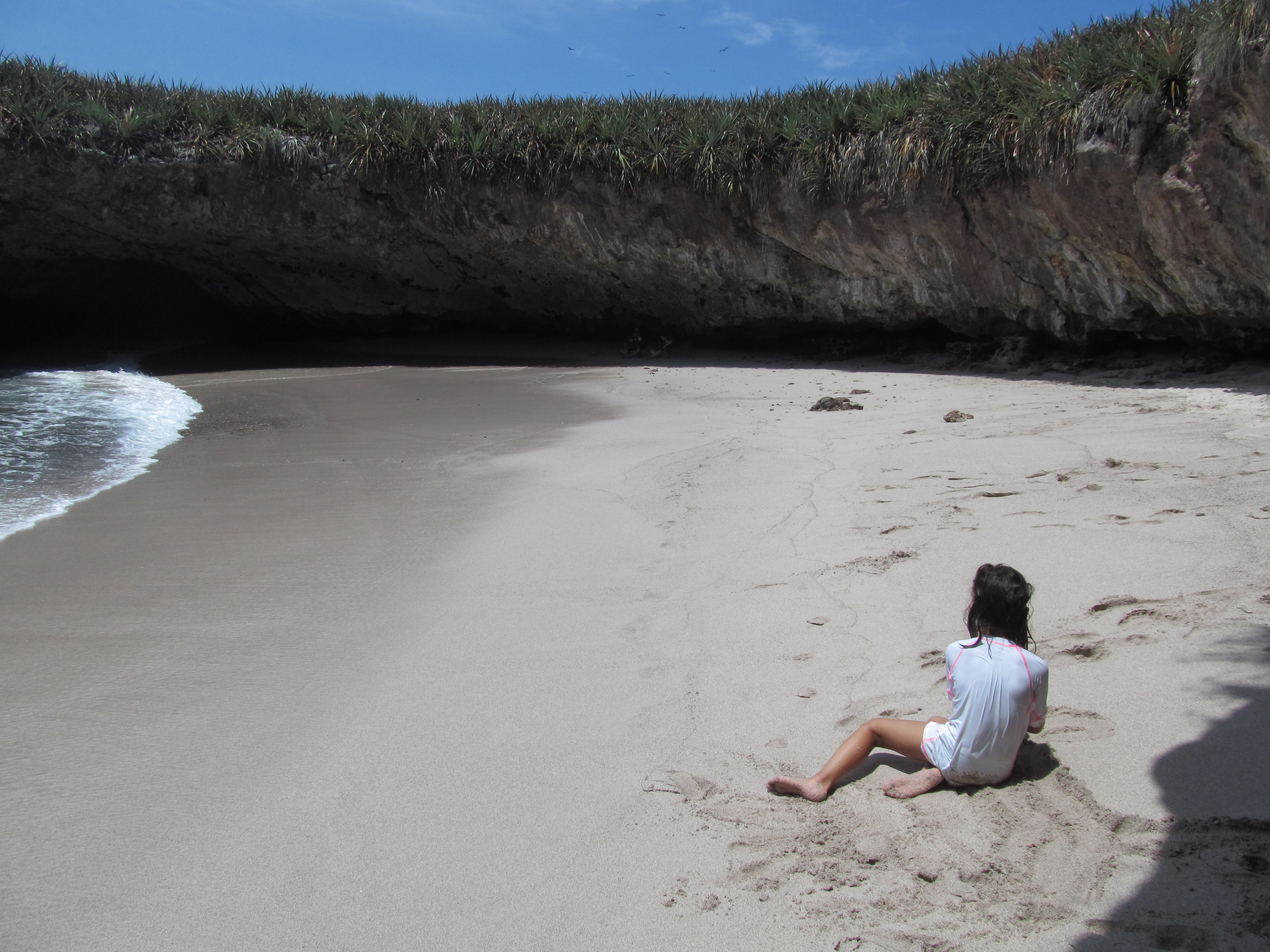 Parque Nacional Islas Marietas, en Bahia de Banderas, Nayarit, MEXICO The Marieta Islands National Park in Mexico